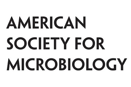 American Society for Microbiology